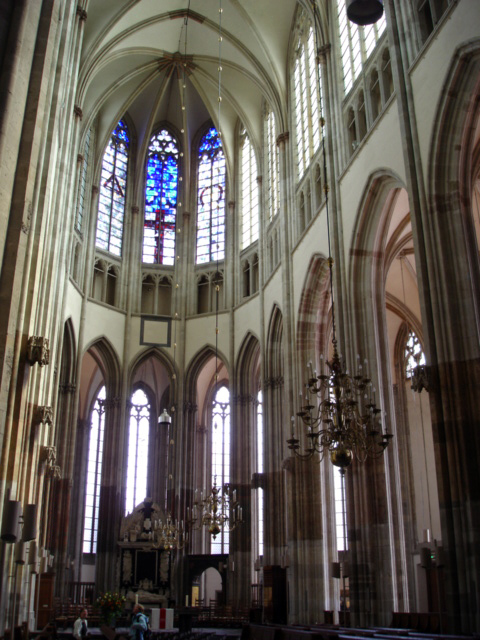 Interior of Utrecht Cathedral